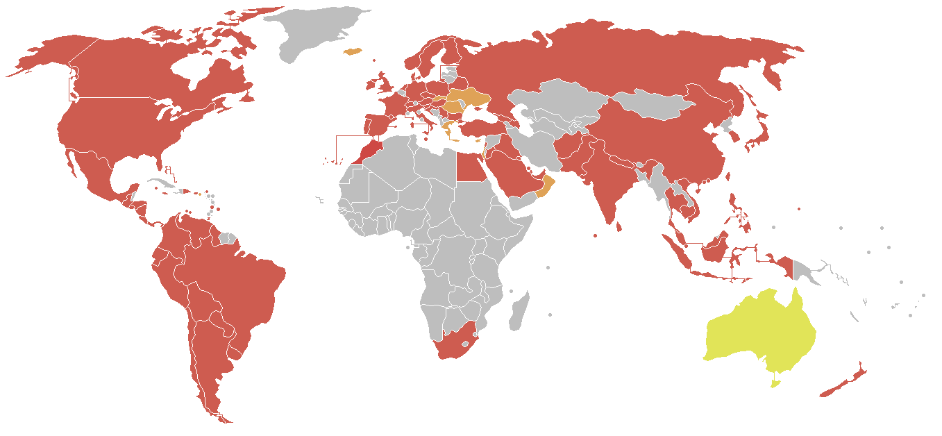 Locations of Burger King marked in ras listed on Burger King. Former locations (Romania, Ukraine, Slovakia, Greece, Oman) shown in Orange. Locations where it is operated under a different name (Australia) shown in yellow.